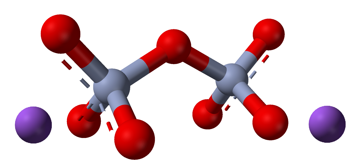 Sodium dichromate